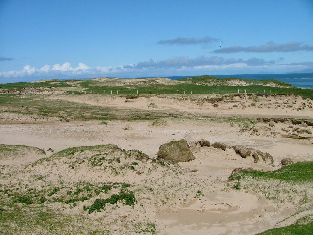 Sand Dunes, Ardnave Point.